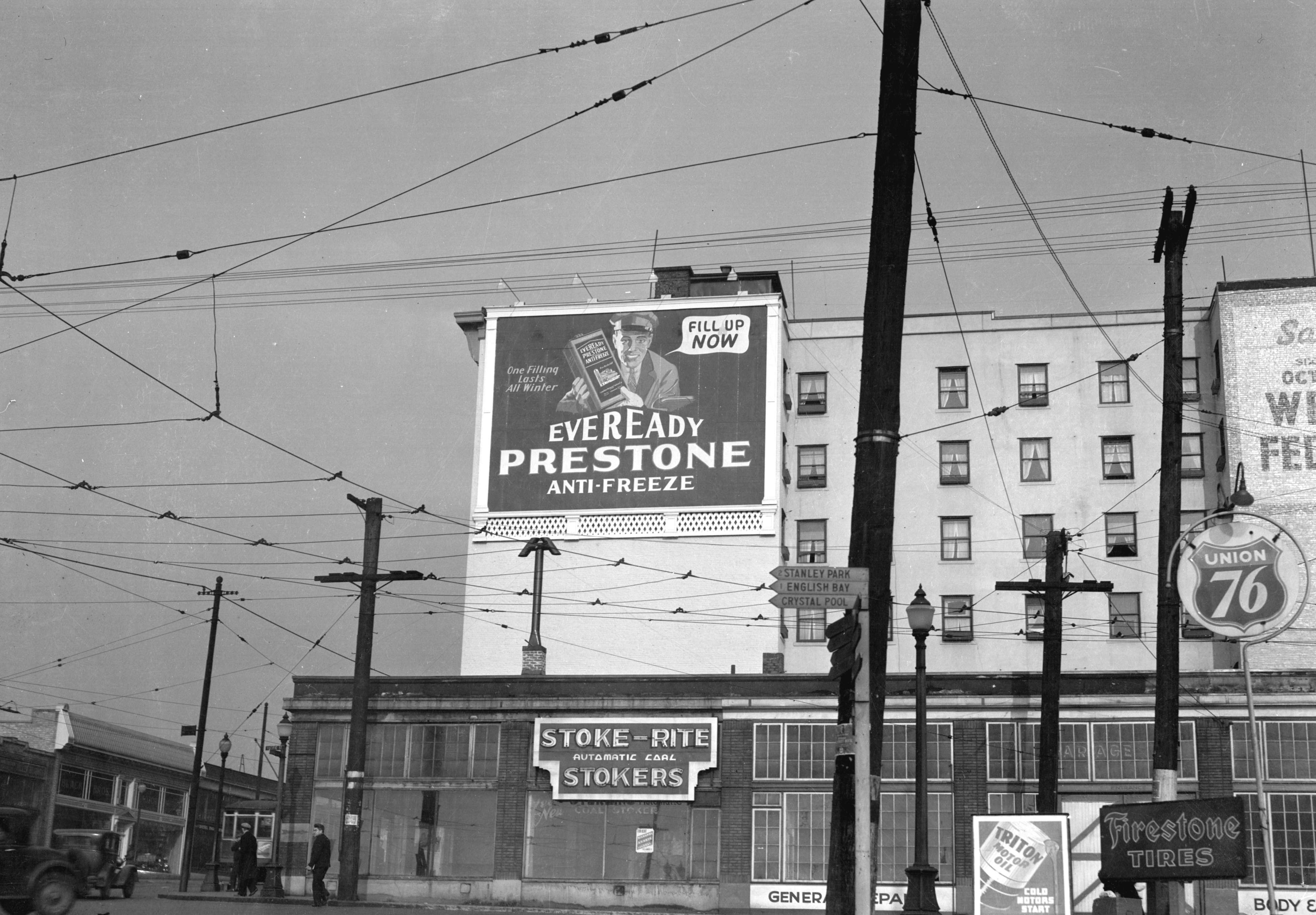 An Eveready Prestone Antifreeze billboard on the Continental Hotel at 1390 Granville Street Vancouver.